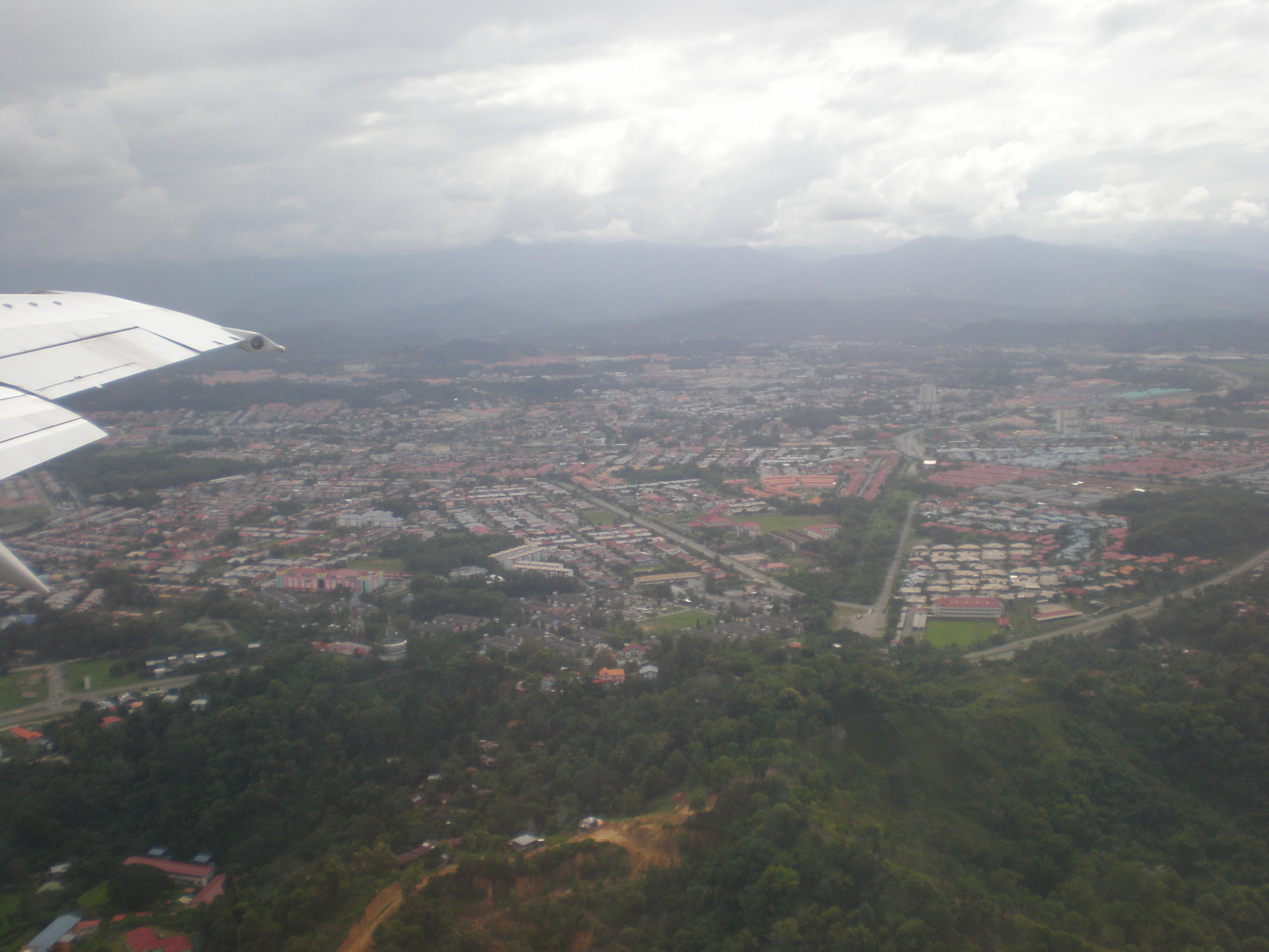 Aerial view of Kepayan.